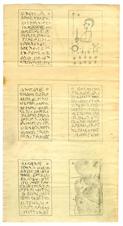 Broadside depicting The Record of Rajah Manchou of Vorito, commonly known as the Voree Plates, allegedly discovered by James J. Strang and used to promote his leadership of the Latter Day Saints